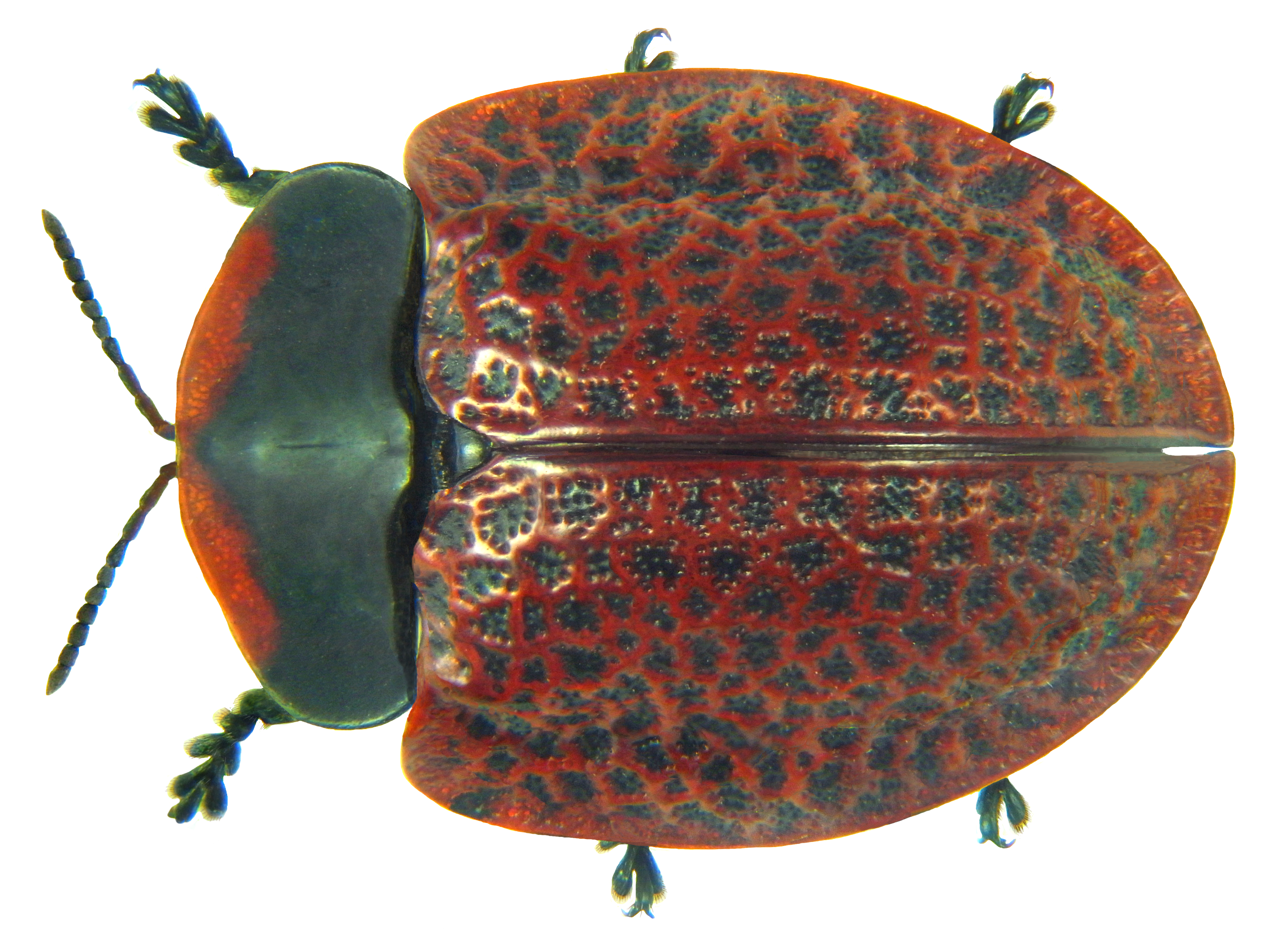 Family: Chrysomelidae Size: 14,2 mm Location: Brazil det. L.Borowiec, 2012 Photo: U.Schmidt, 2012